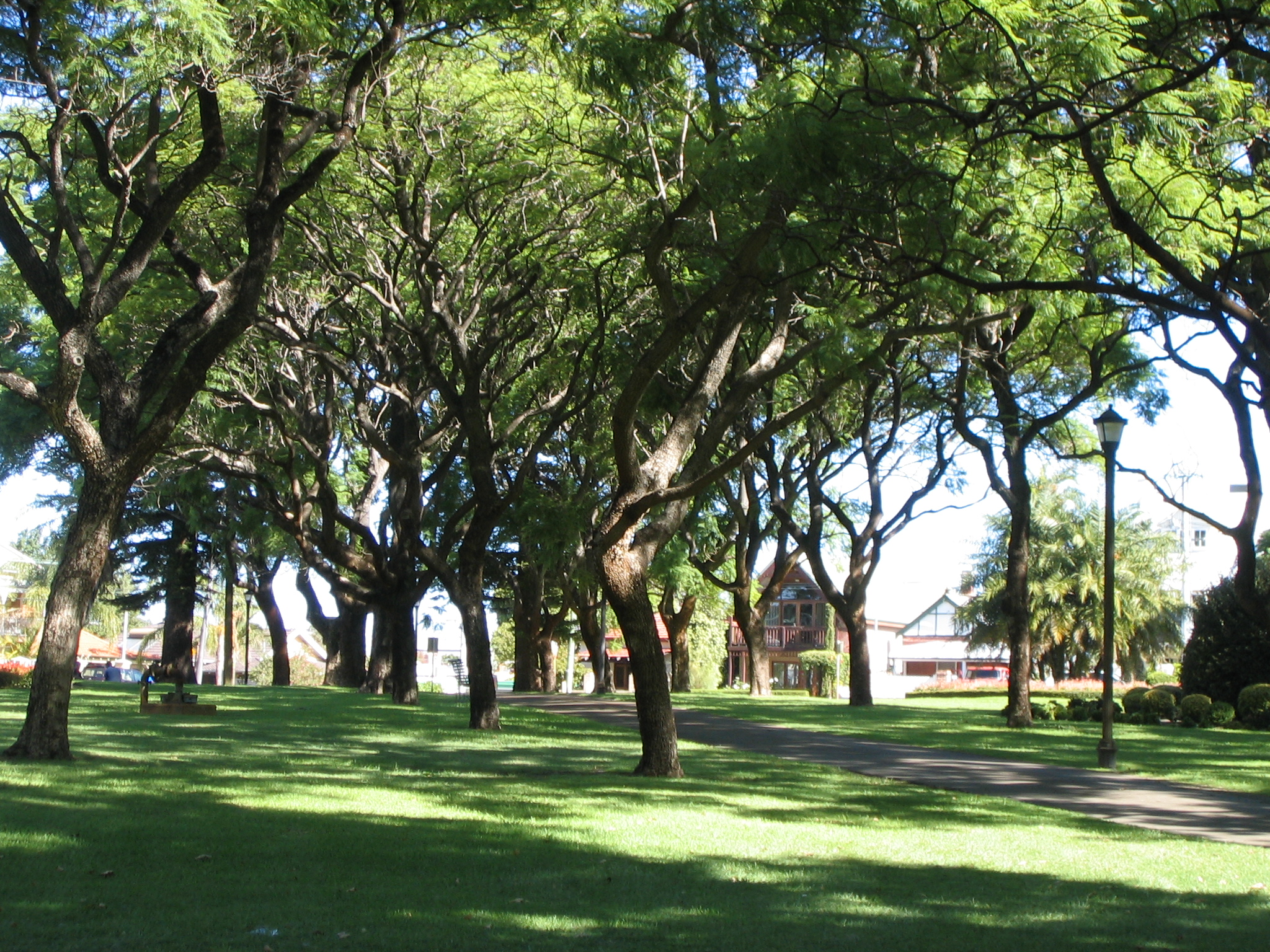 Hyde Park, Perth, Western Australia.